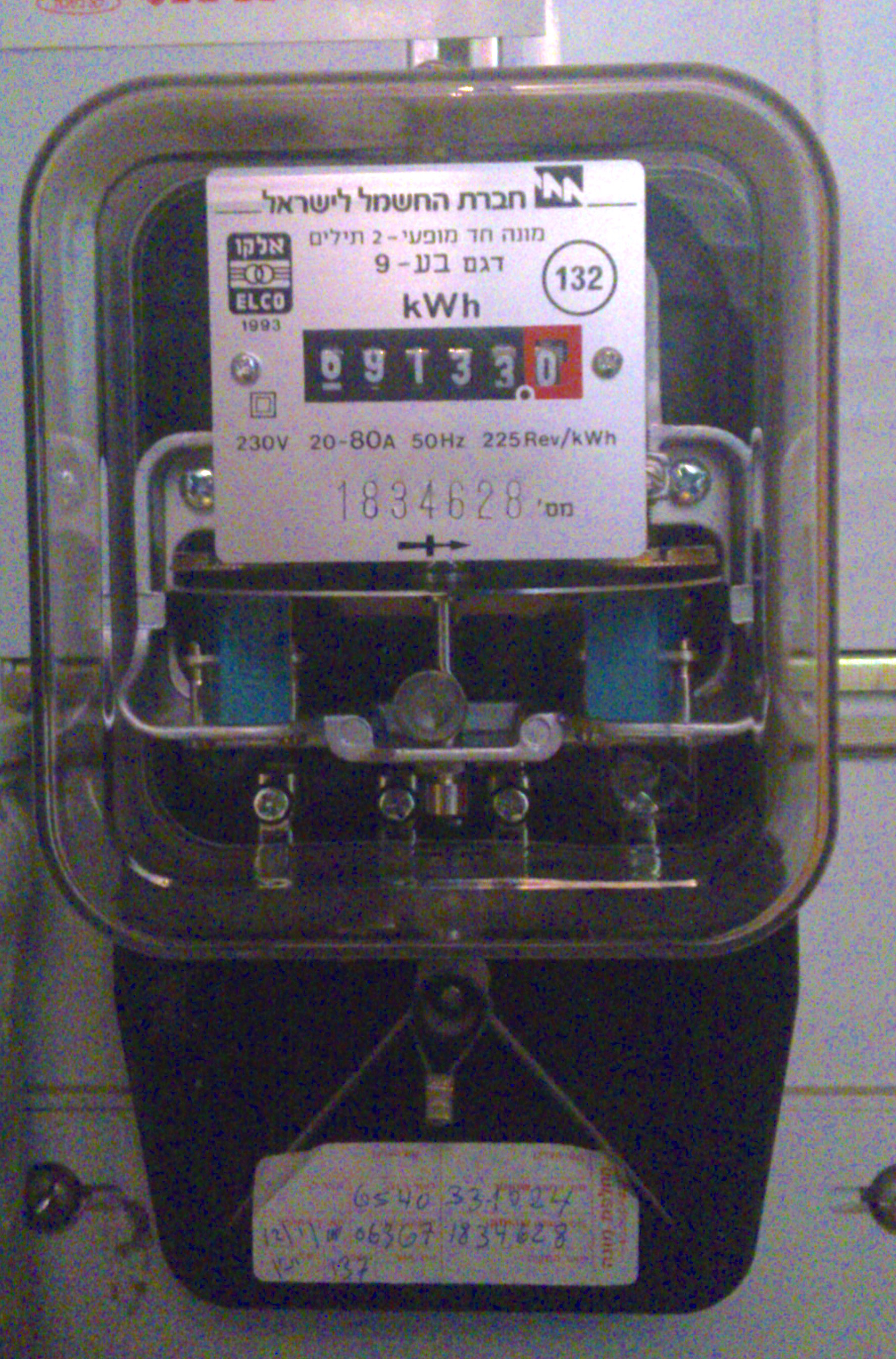 Transparent Electricity Meter found in Israel. Nicely build Ferais meter with visible coils.